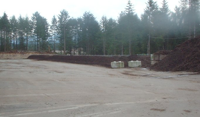 Municipal biosolids composting facility, matureing windrow